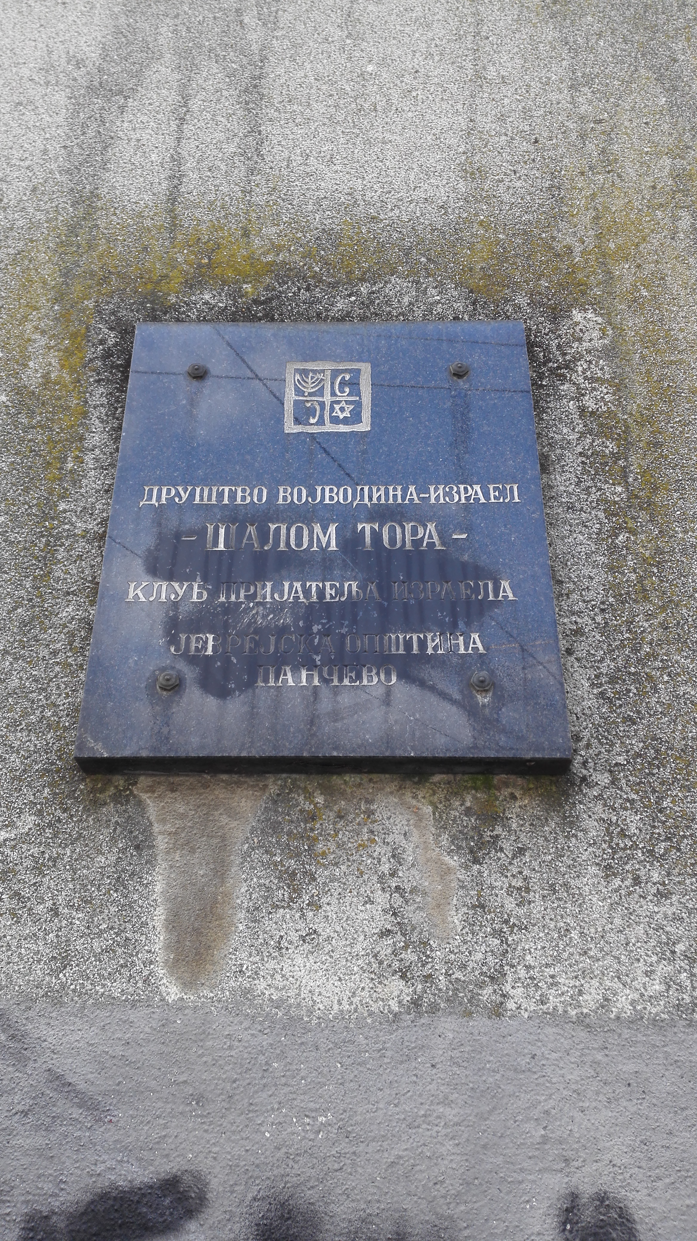 Pančevo Synagogue, burned in 2007.